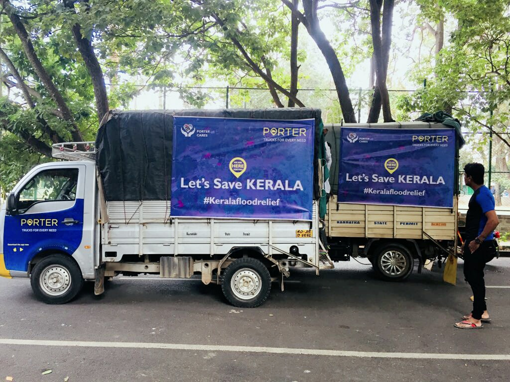 Porter providing relief materials to the victims of Kerala Flood.